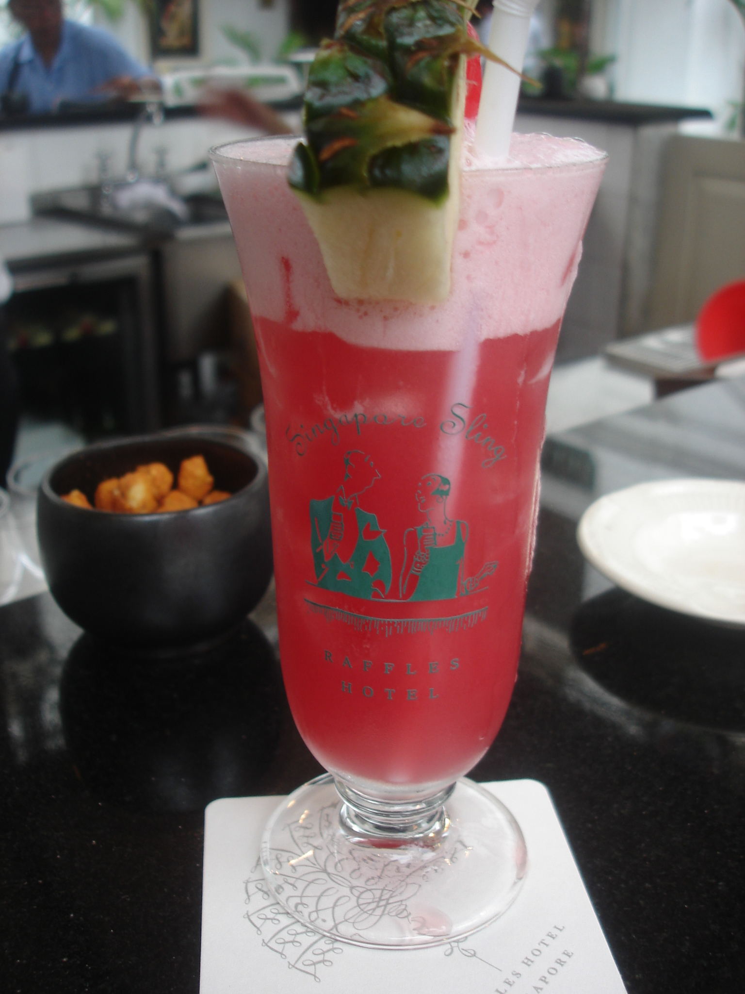 The deadly poison that is a Singapore Sling. We had to have two just to make sure!